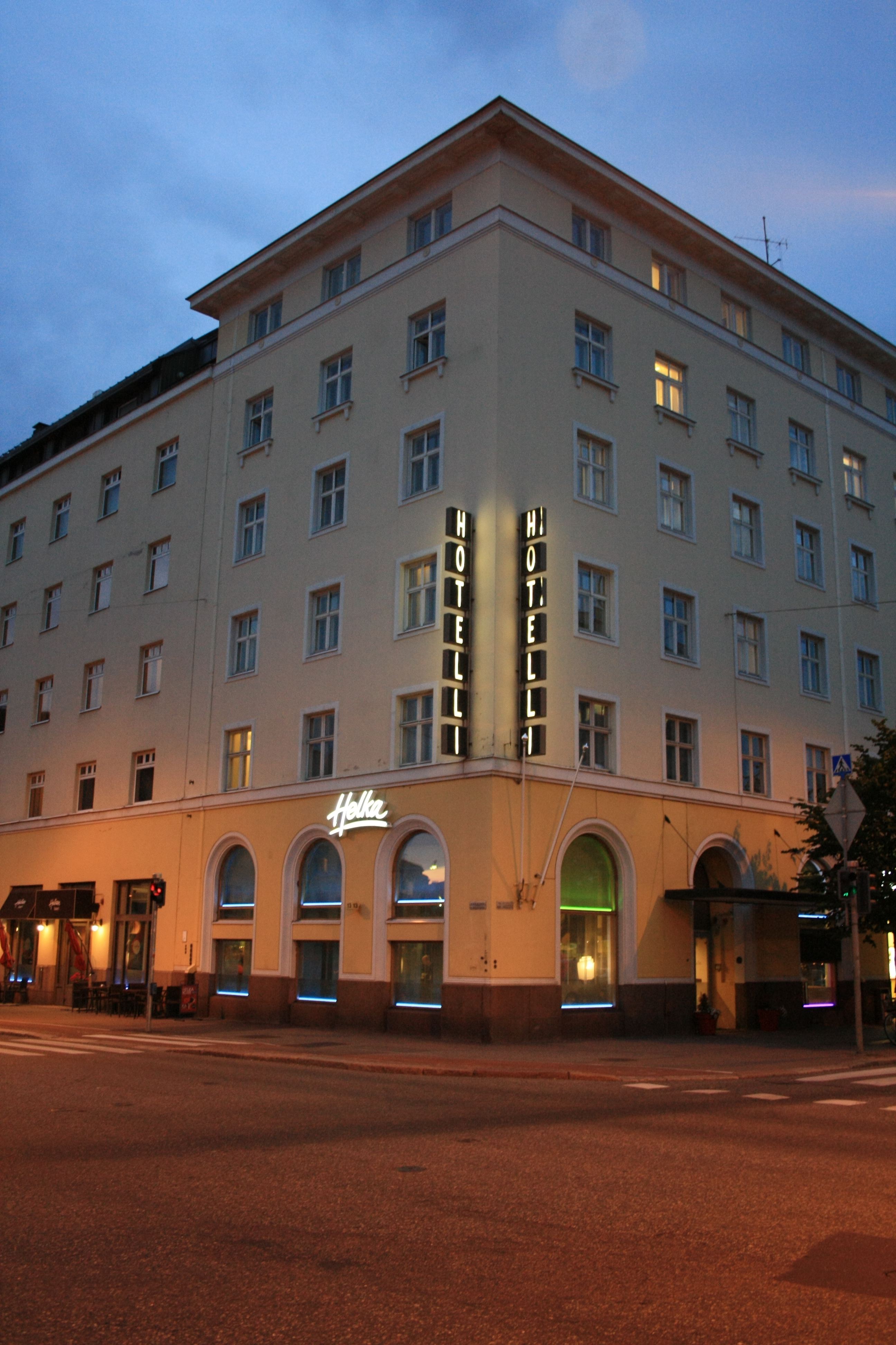 Hotel Helka in Helsinki